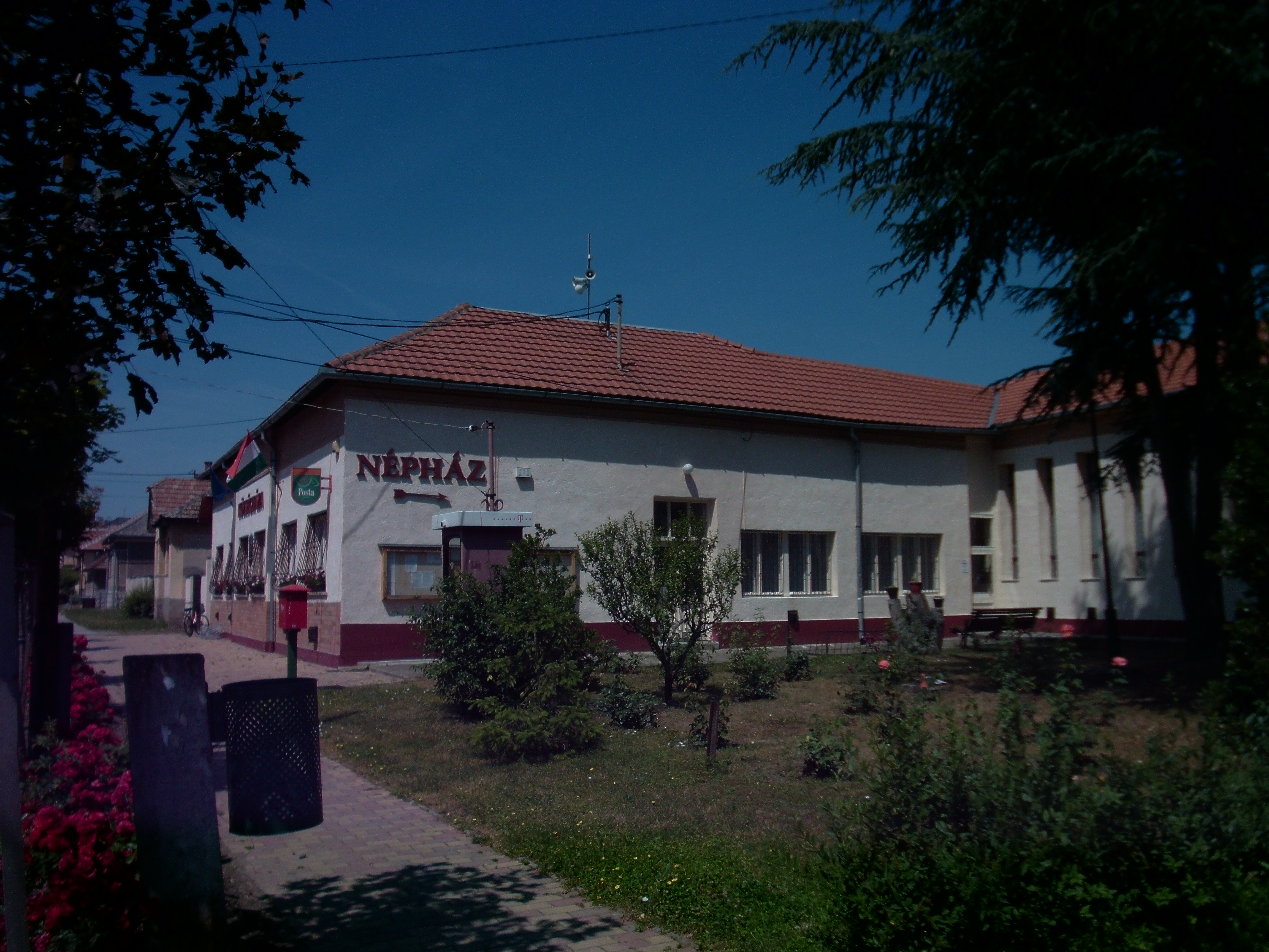 Town hall, post office and house of culture, Nagytálya